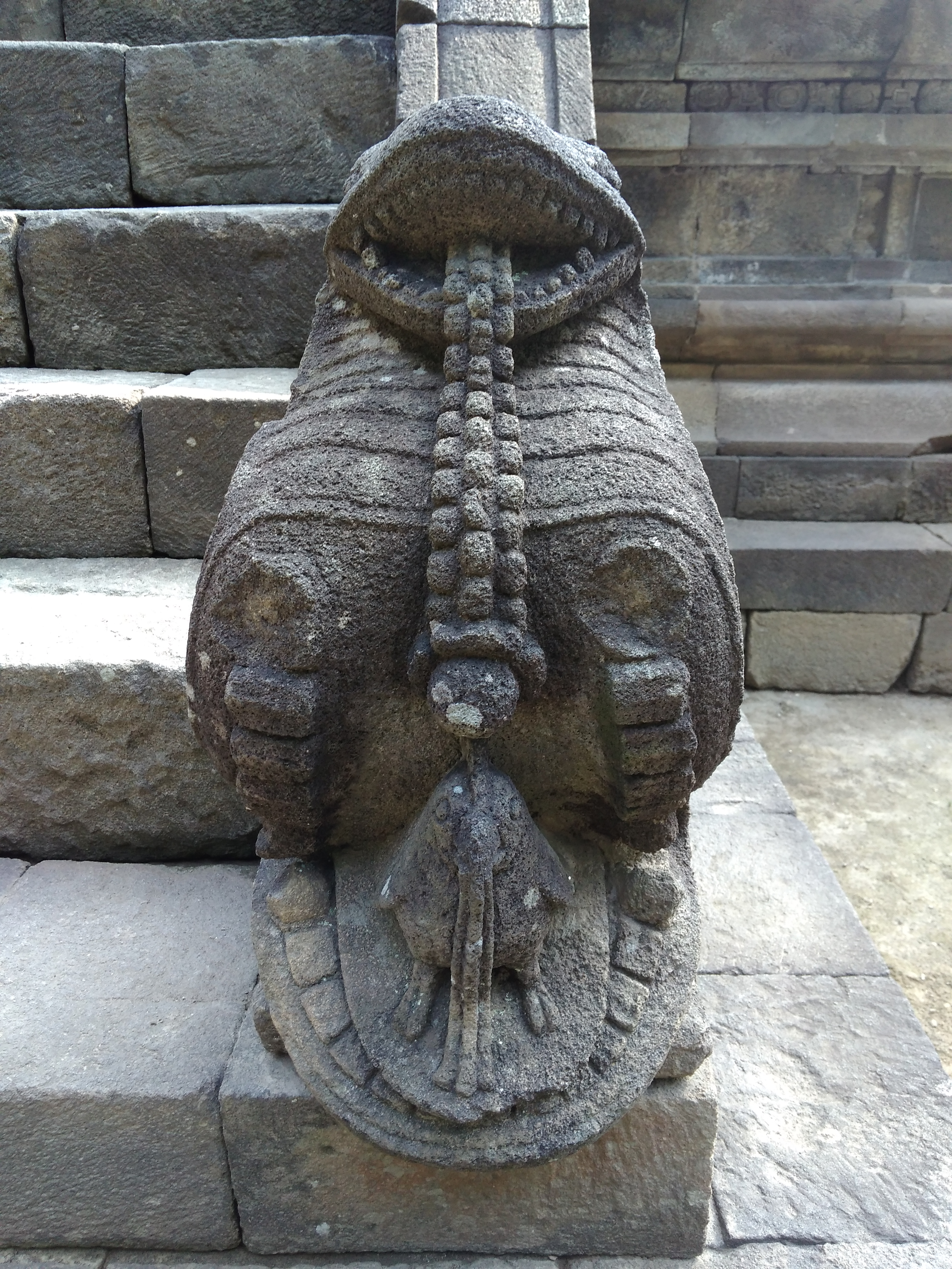 Makara of Candi Merak